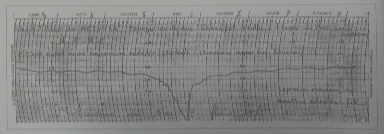 Air preasure Cyclone Gervaise 1975